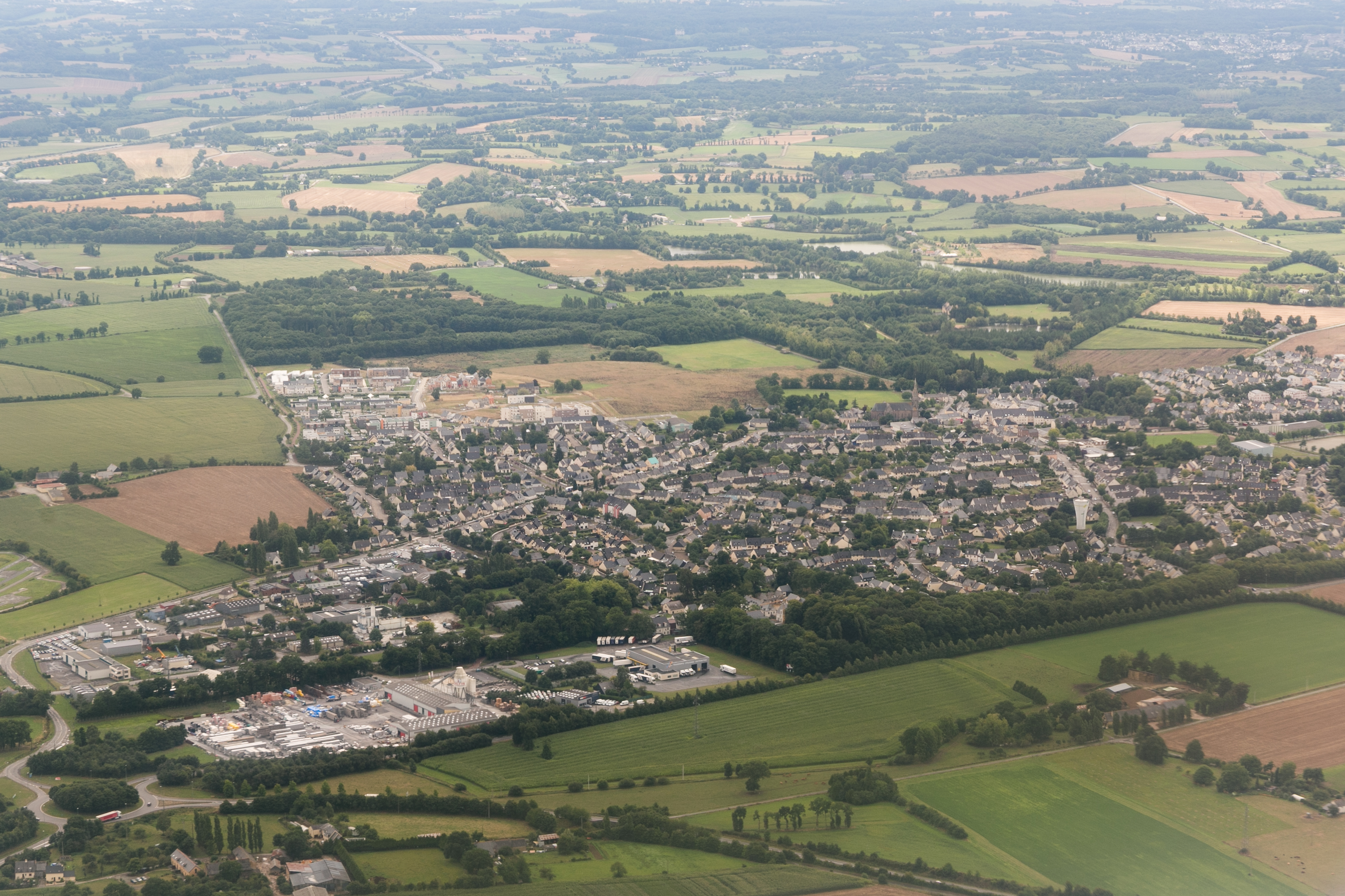 Aerial view of Chavagne during a flight between RNS and CDG.